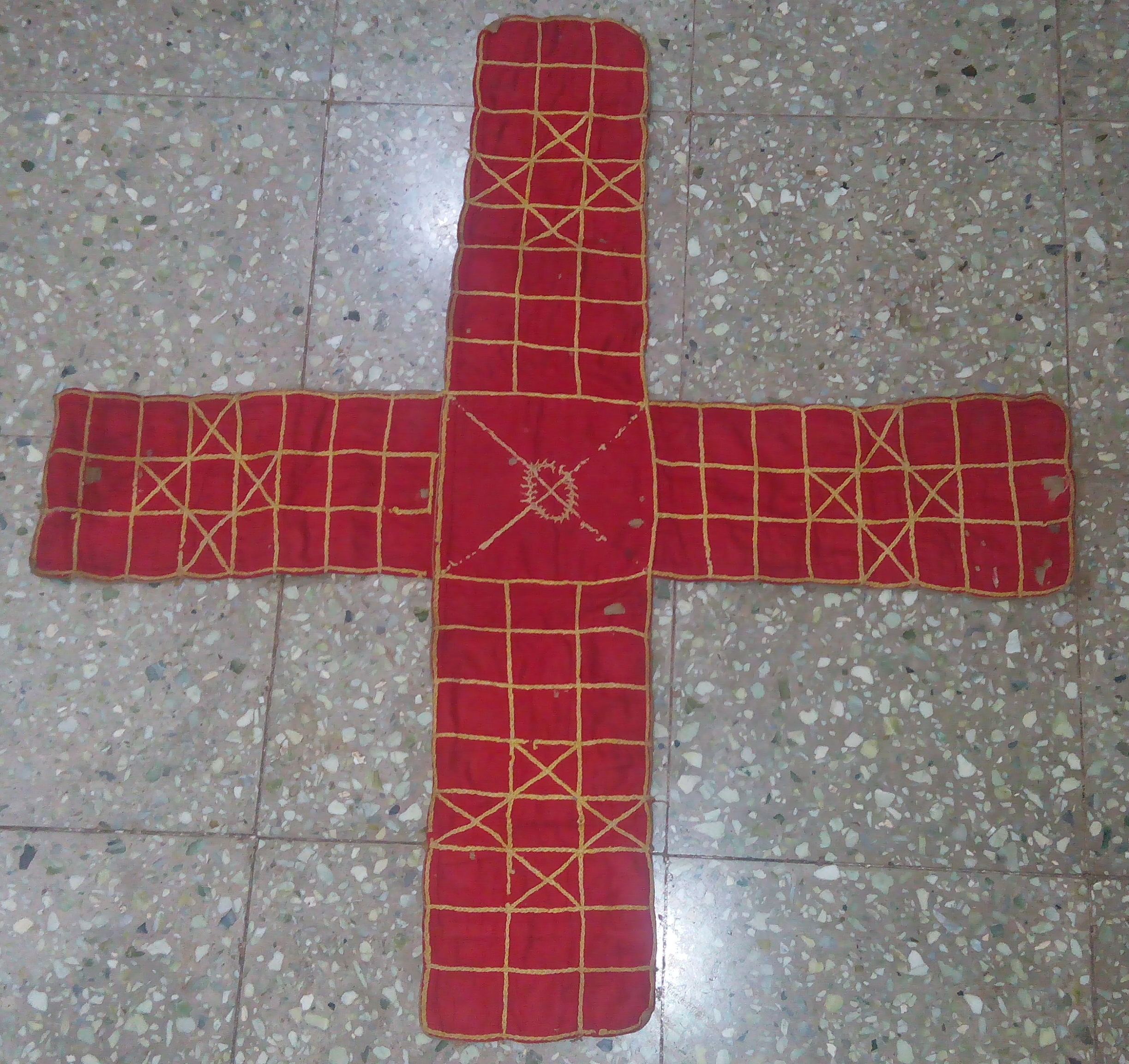 dice game of india